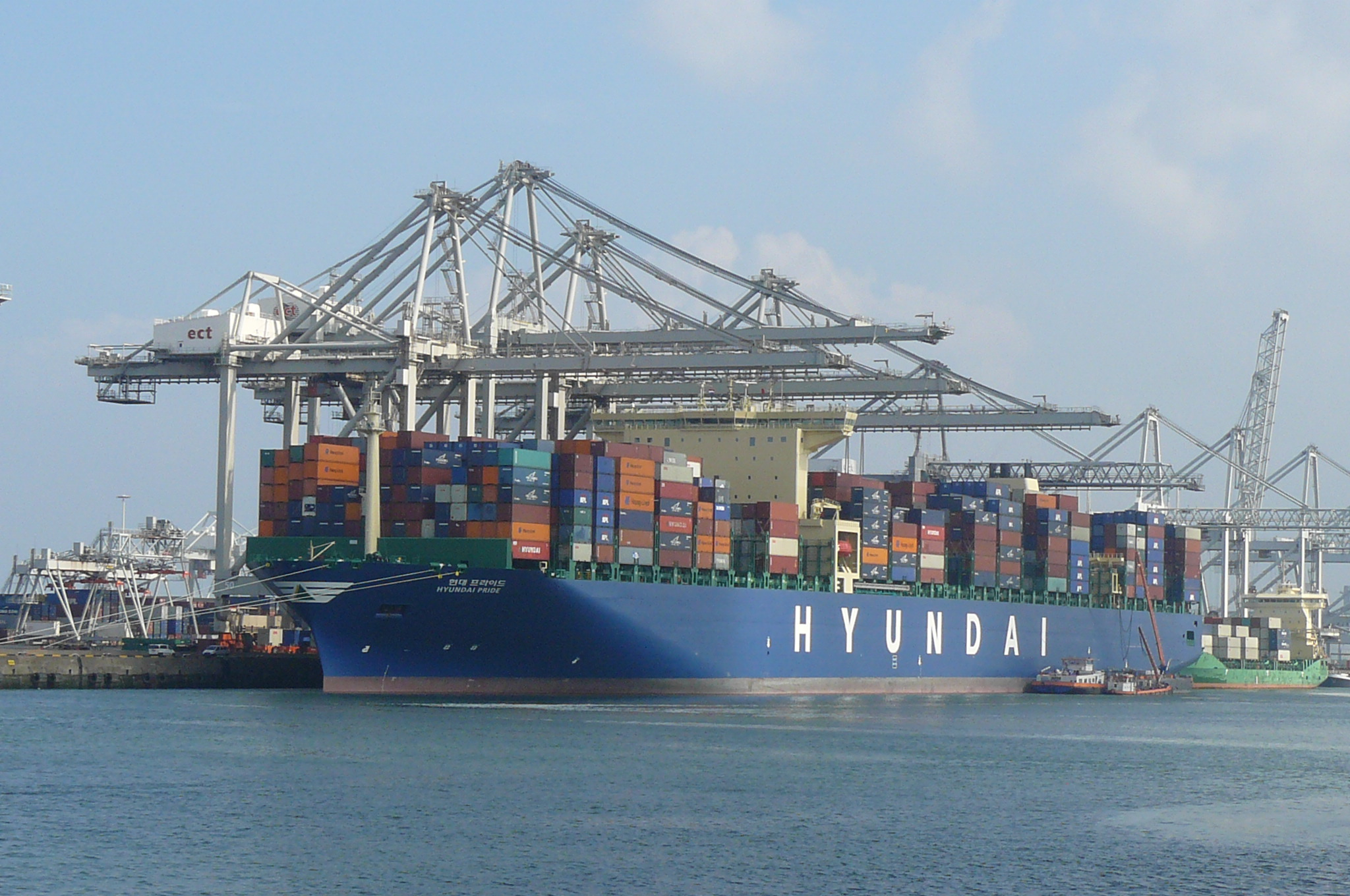 Container ship Hyundai Pride in the Port of Rotterdam. IMO: 9637260 MMSI: 538005629 Gross Tonnage: 130000 Summer DWT: 152700 t Build: 2014